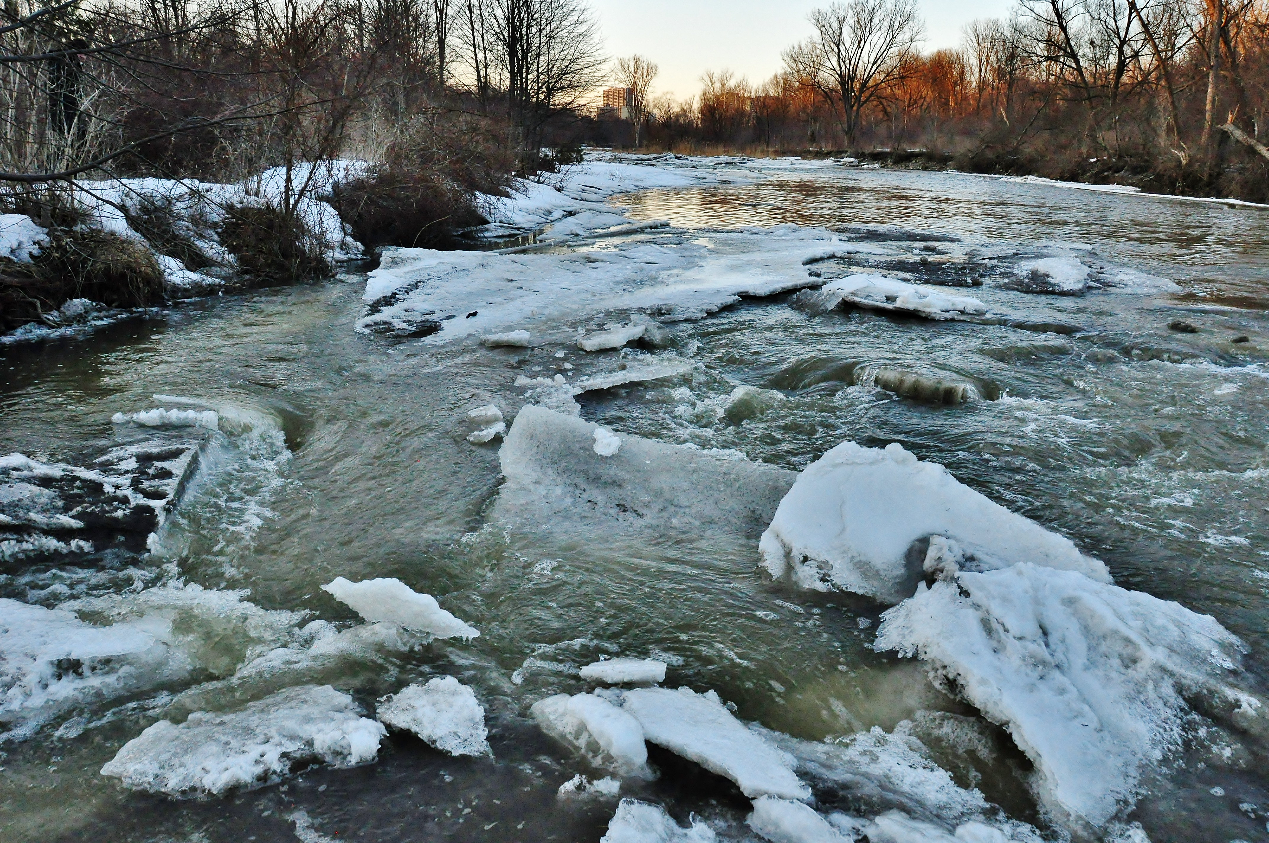 Spring ice on Humber River in Toronto, Canada